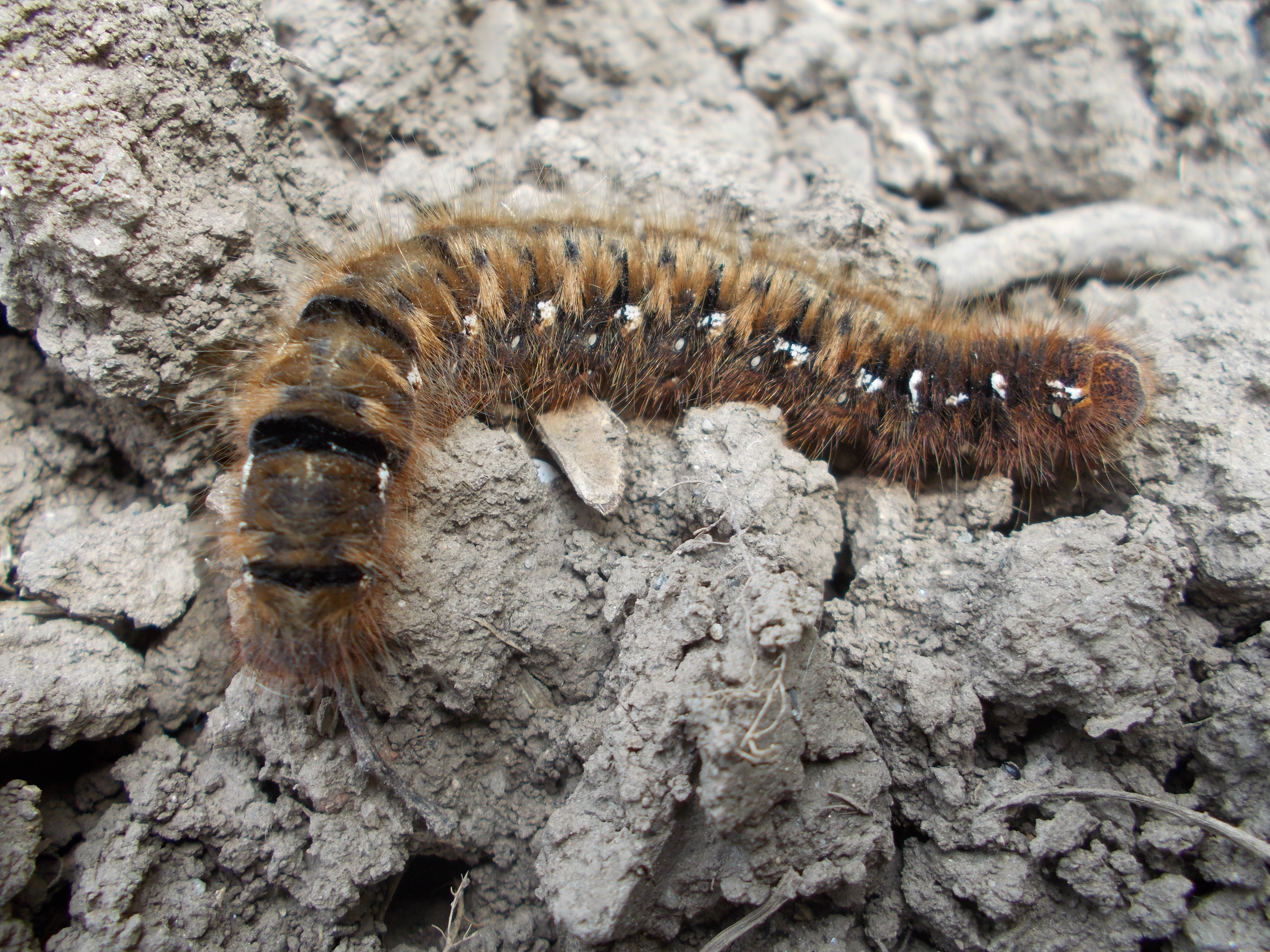 Caterpillar